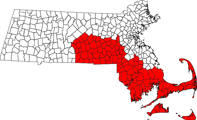 I created this file myself using an image from the massachusetts government website. It is completely in the public domain. But it doesn't work.